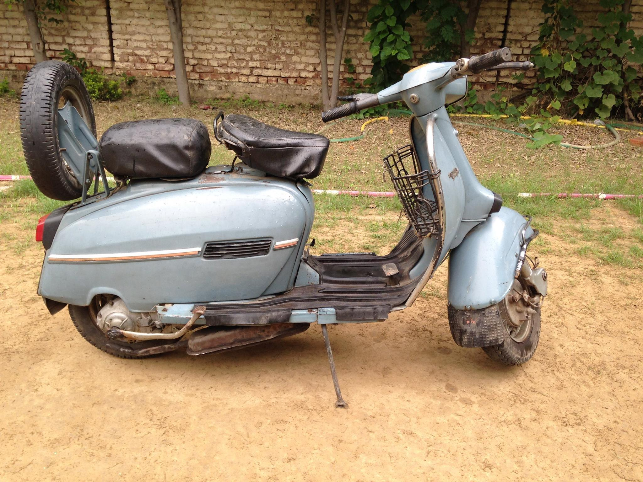 Scooter